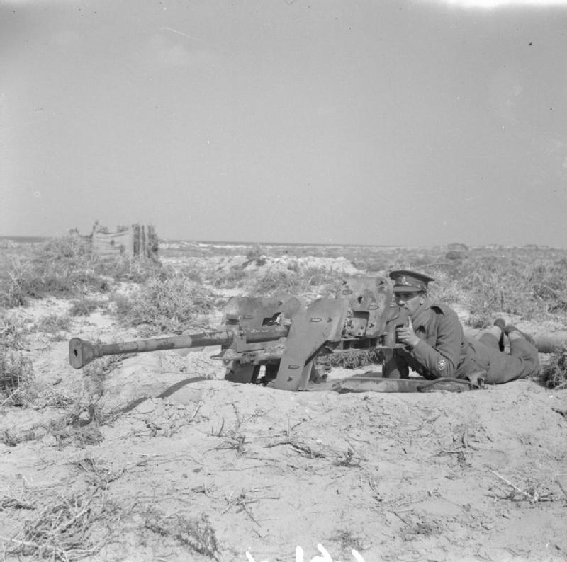 The British Army in North Africa and the Middle East 1942 A captured German 28mm sPzB 41 anti-tank gun, 6 March 1942.